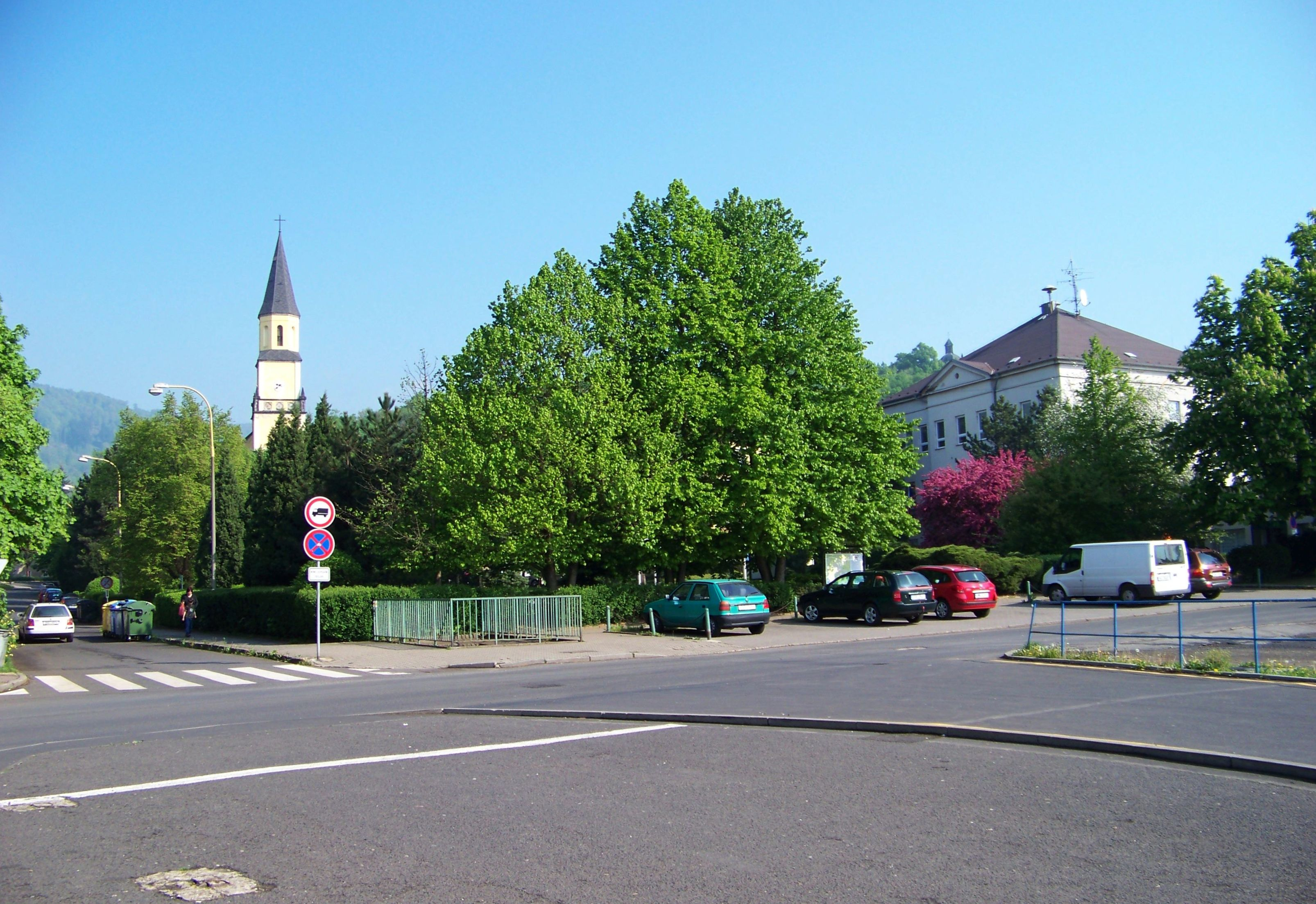 Chlumec, Ústí nad Labem District, Ústí nad Labem Region, Czech Republic. Ústecká and Krušnohorská street, a square.